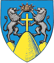 Coat of arms of Suceava County, Romania.